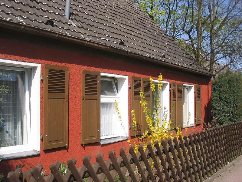 Listed housing estate, built in 1816, in Tiefwerder. Tiefwerder is a former village, founded in 1816, in Berlin-Spandau and an ait in Berlin-Wilhelmstadt from river Havel. The Tiefwerder Wiesen (meadows) are a protected area (german: Landschaftsschutzgebiet) and Berlins last natural flood plain and last spawn-area for the Northern pike.